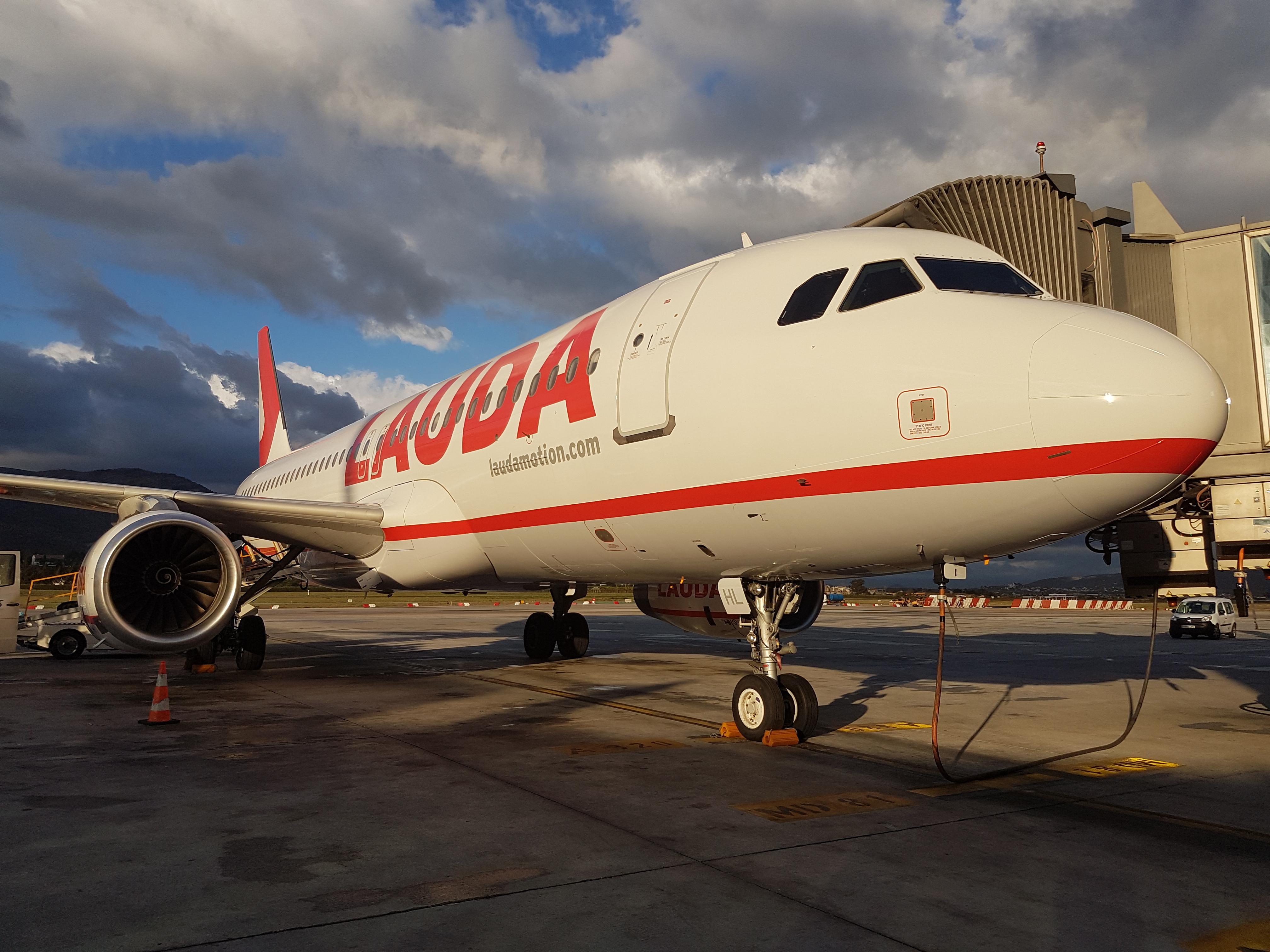 A320 from Lauda at Faro apron